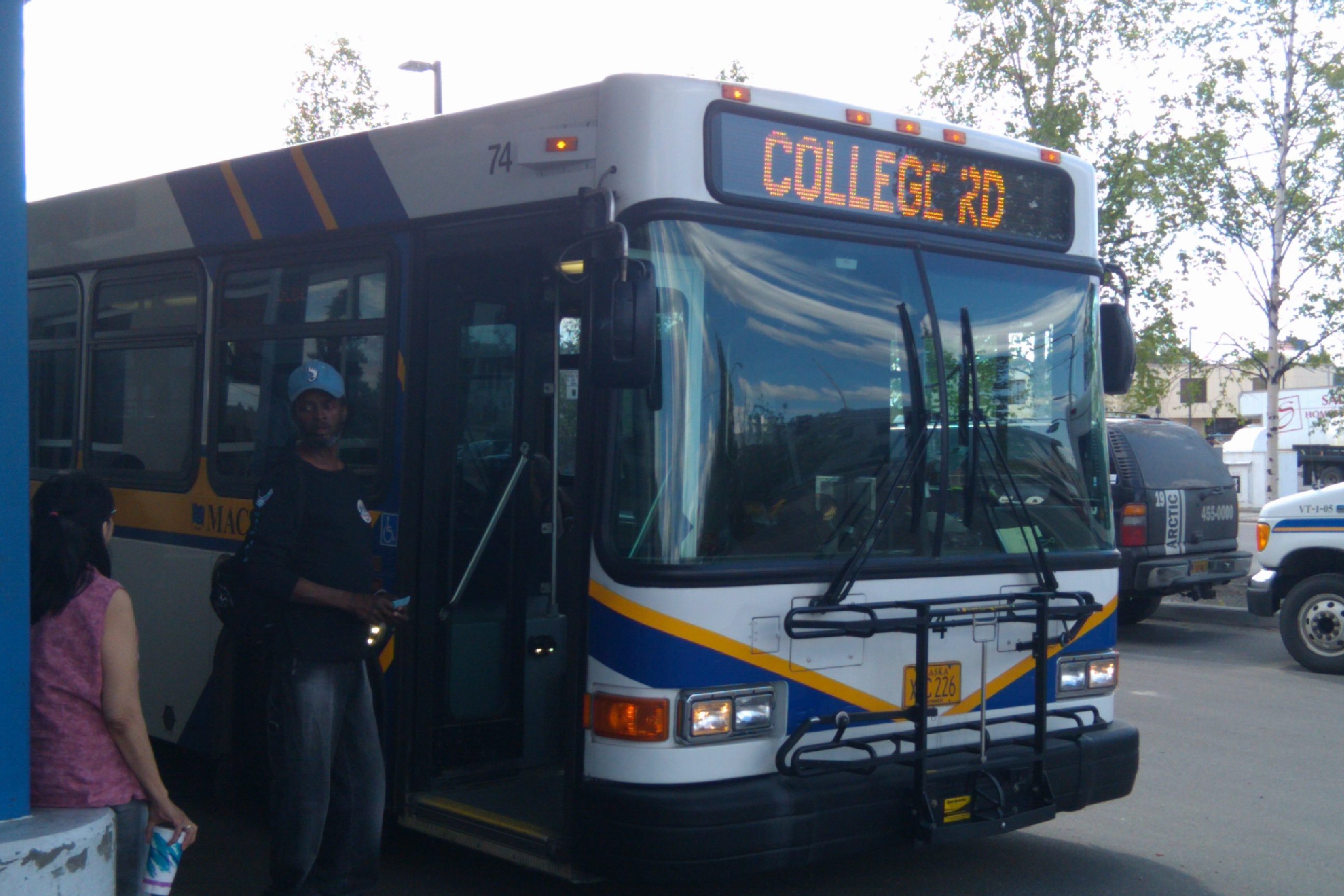 Transit bus laying over in Fairbanks, Alaska. The Fairbanks North Star Borough has operated the MACS (originally Fairtrans) transit system since 1977.